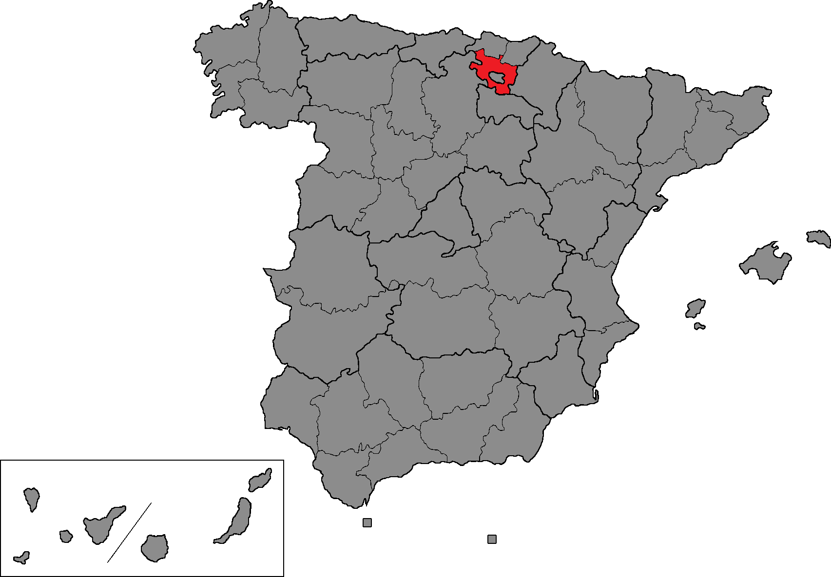 Spanish Congress of Deputies district of Álava.